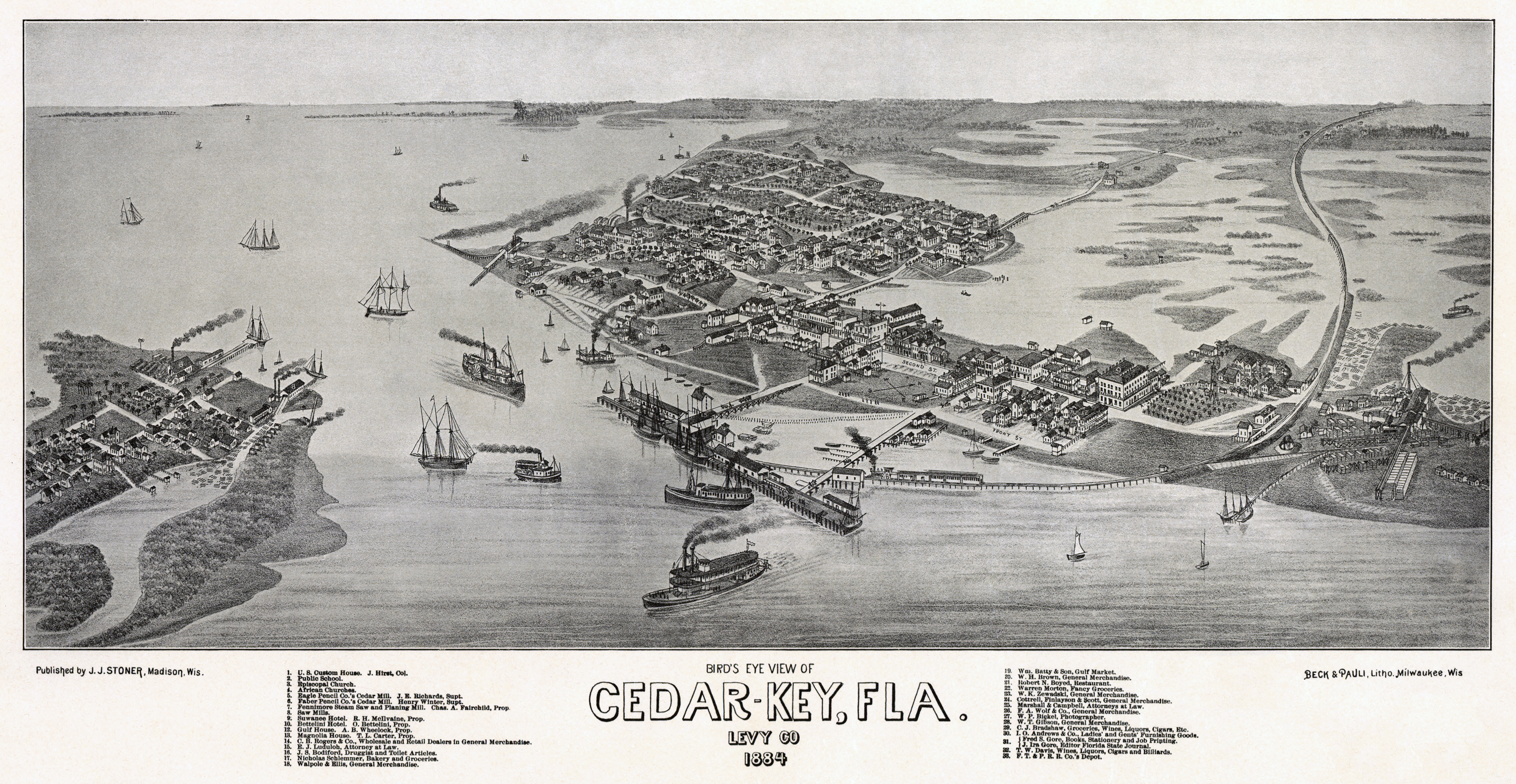 Bird's eye view of Cedar-Key, Fla., Levy Co. Beck & Pauli, litho.